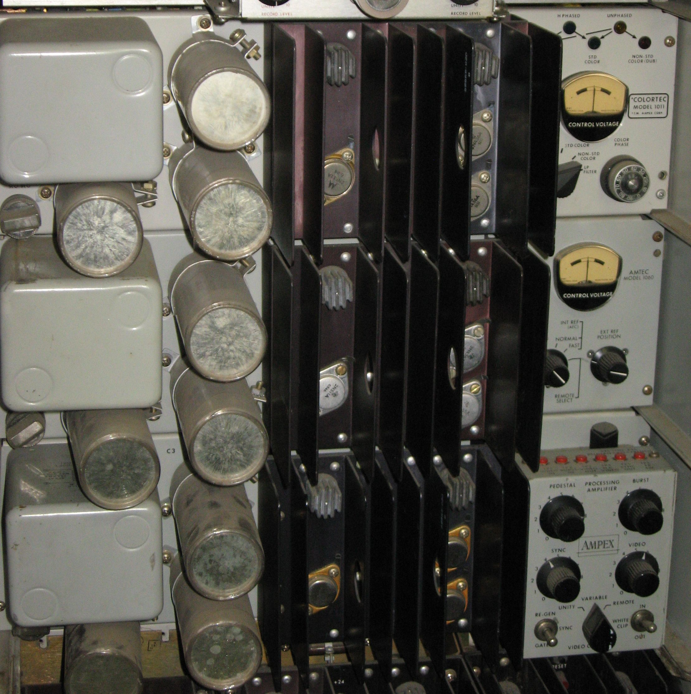 Telecineguy TVR at DC Video Burbank, Ca USA